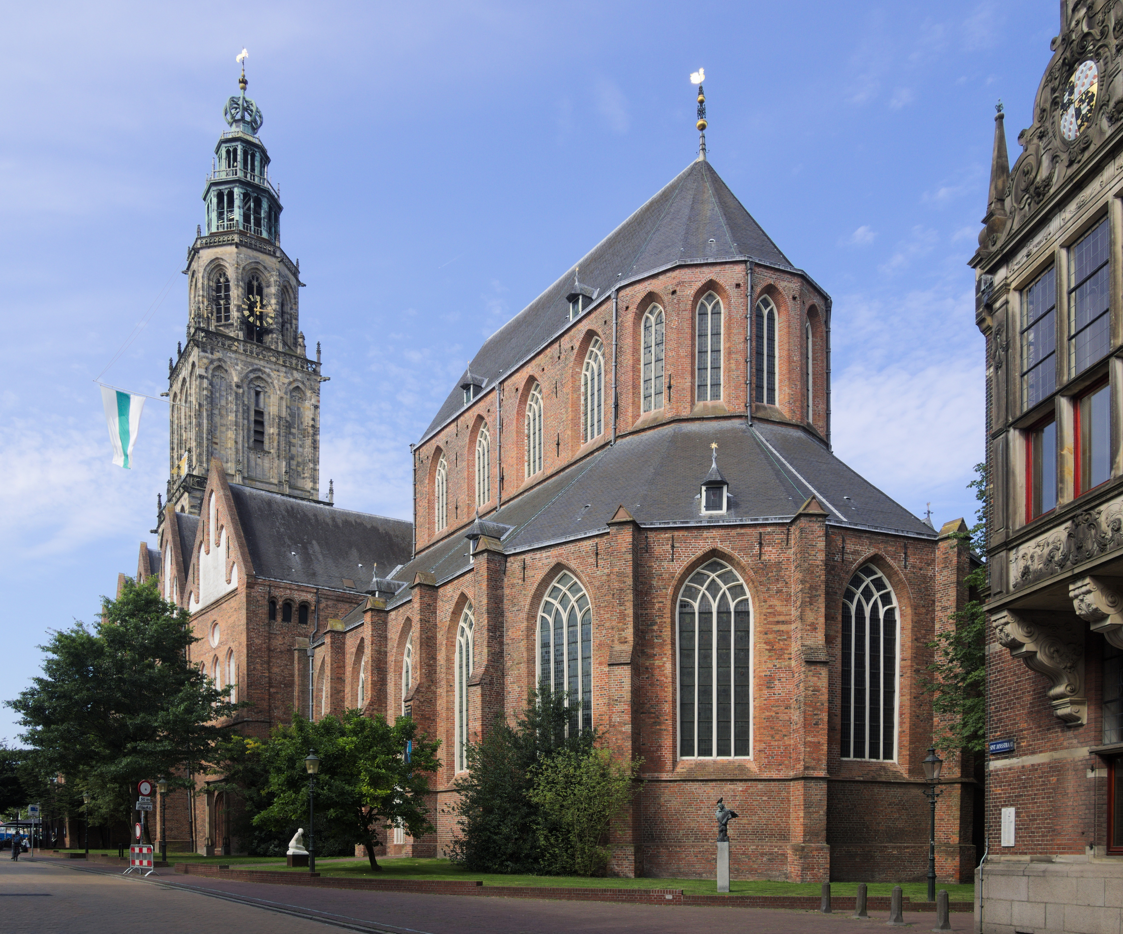 View of Martinikerk, Groningen, from east.